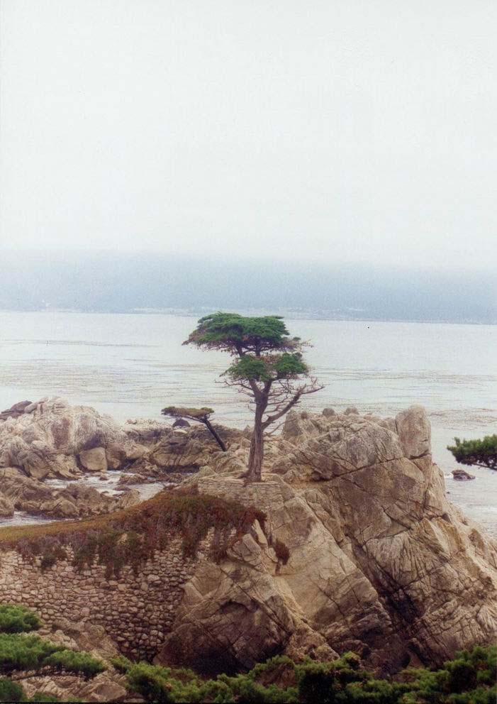 The Lone Cypress in Pebble Beach, California. 17-Mile Drive.